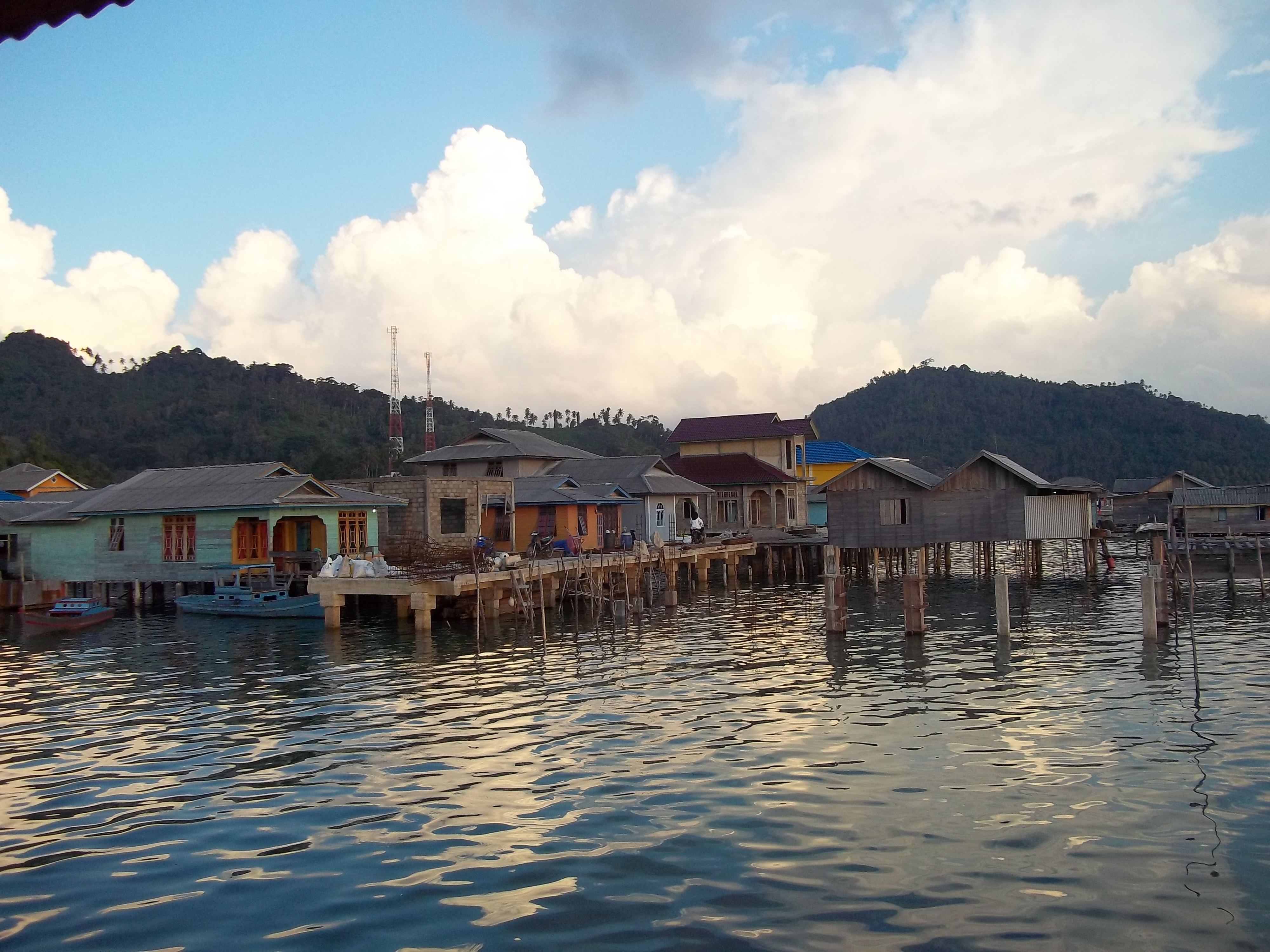 Letung, Jemaja, Anambas Islands, Indonesia